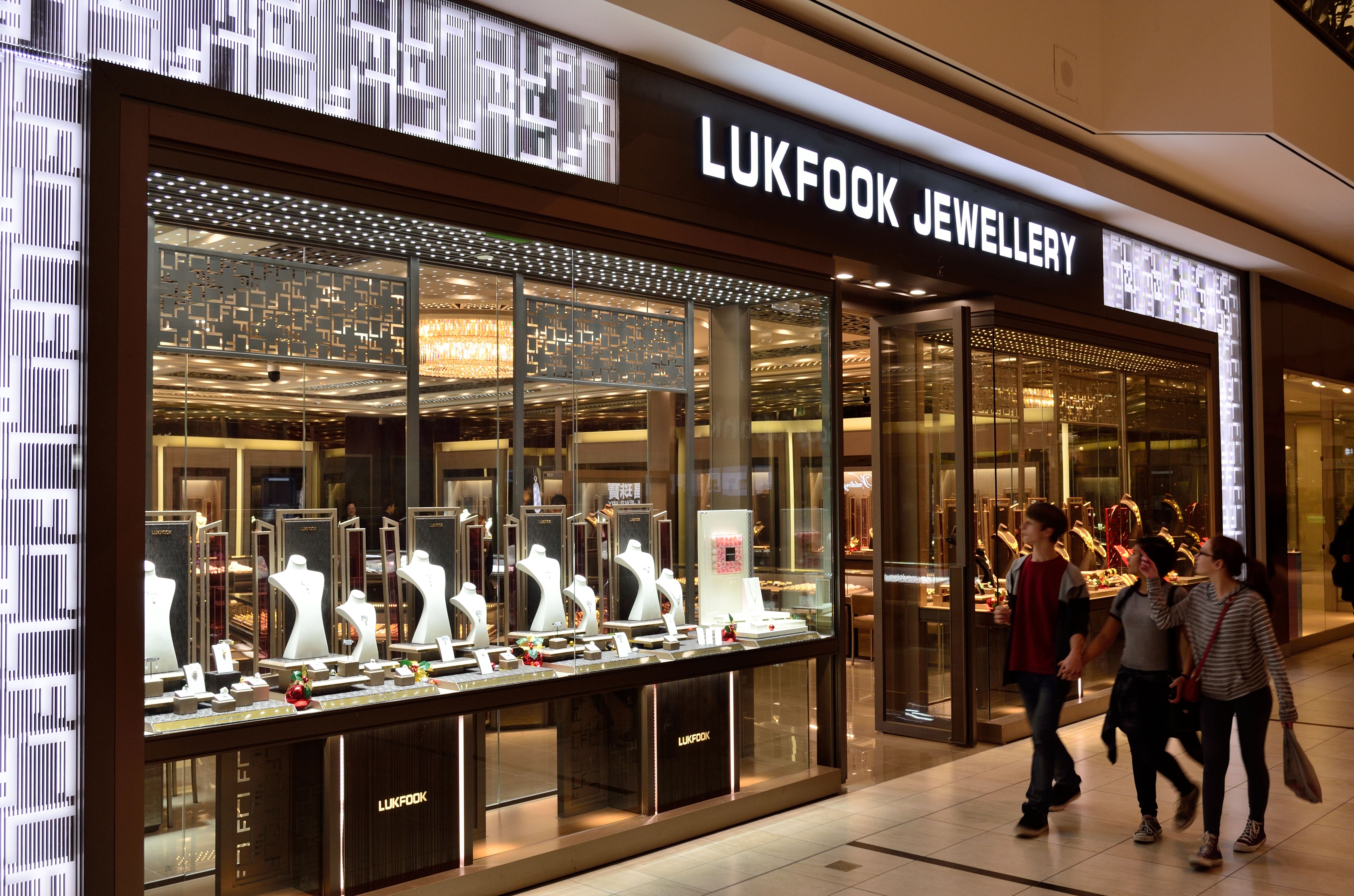 Luk Fook at Markville Shopping Centre